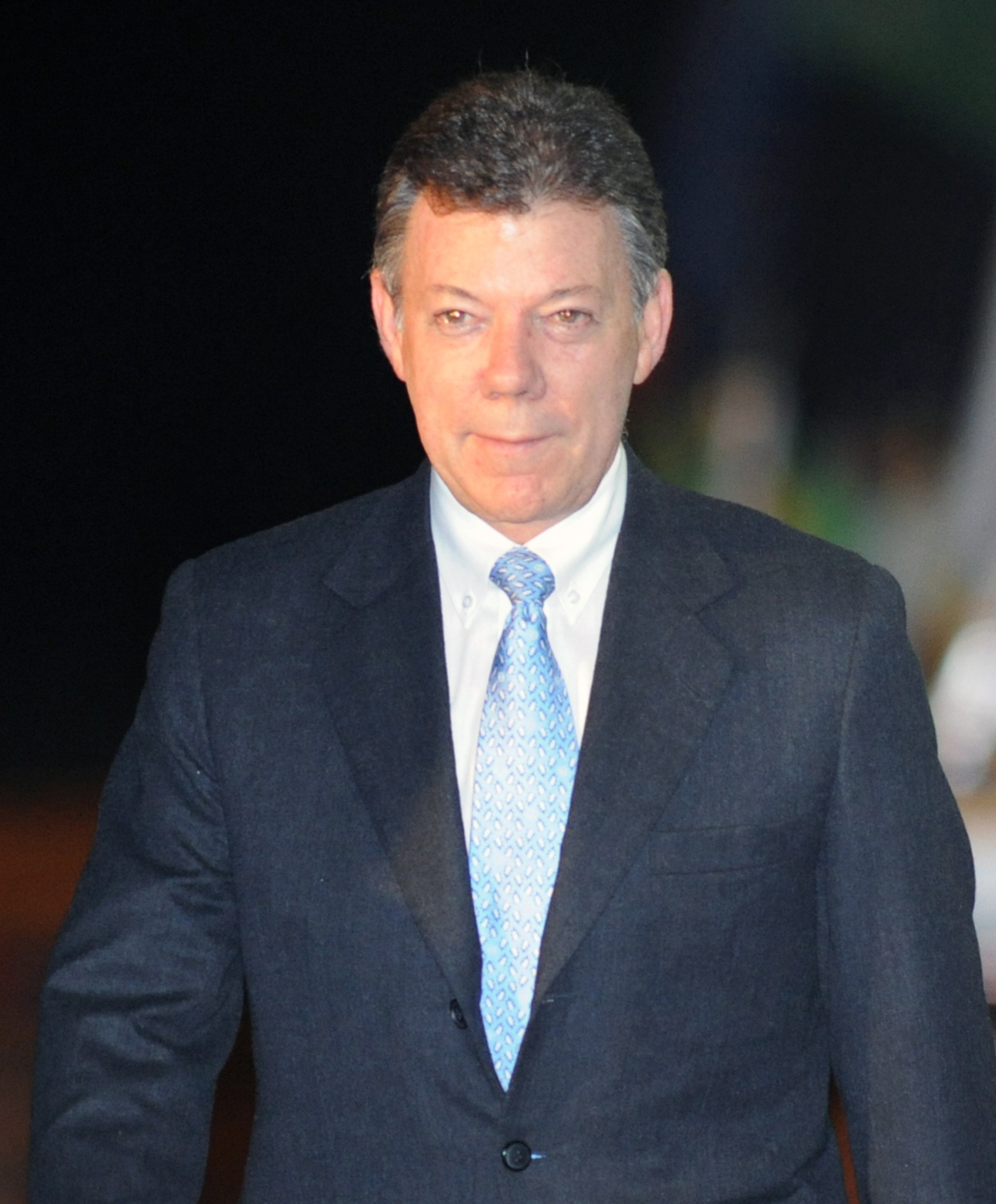 The 59 president of Colombia Juan Manuel Santos Calderon. in Brazil